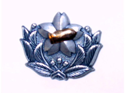 Japanese ground self defence force, bomb disposal badge.